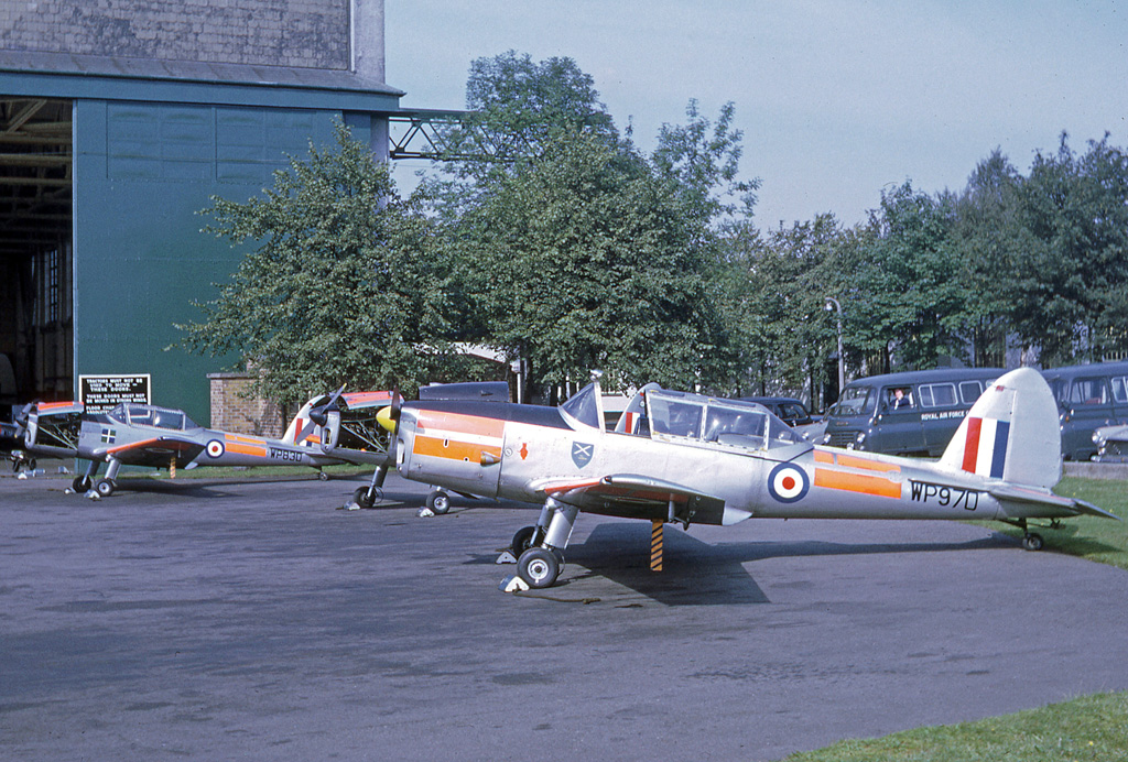 De Havilland DHC-1 Chipmunk T.10 WP970 of 12 Air Experience Flight at Edinburgh (turnhouse) Airport in 1967